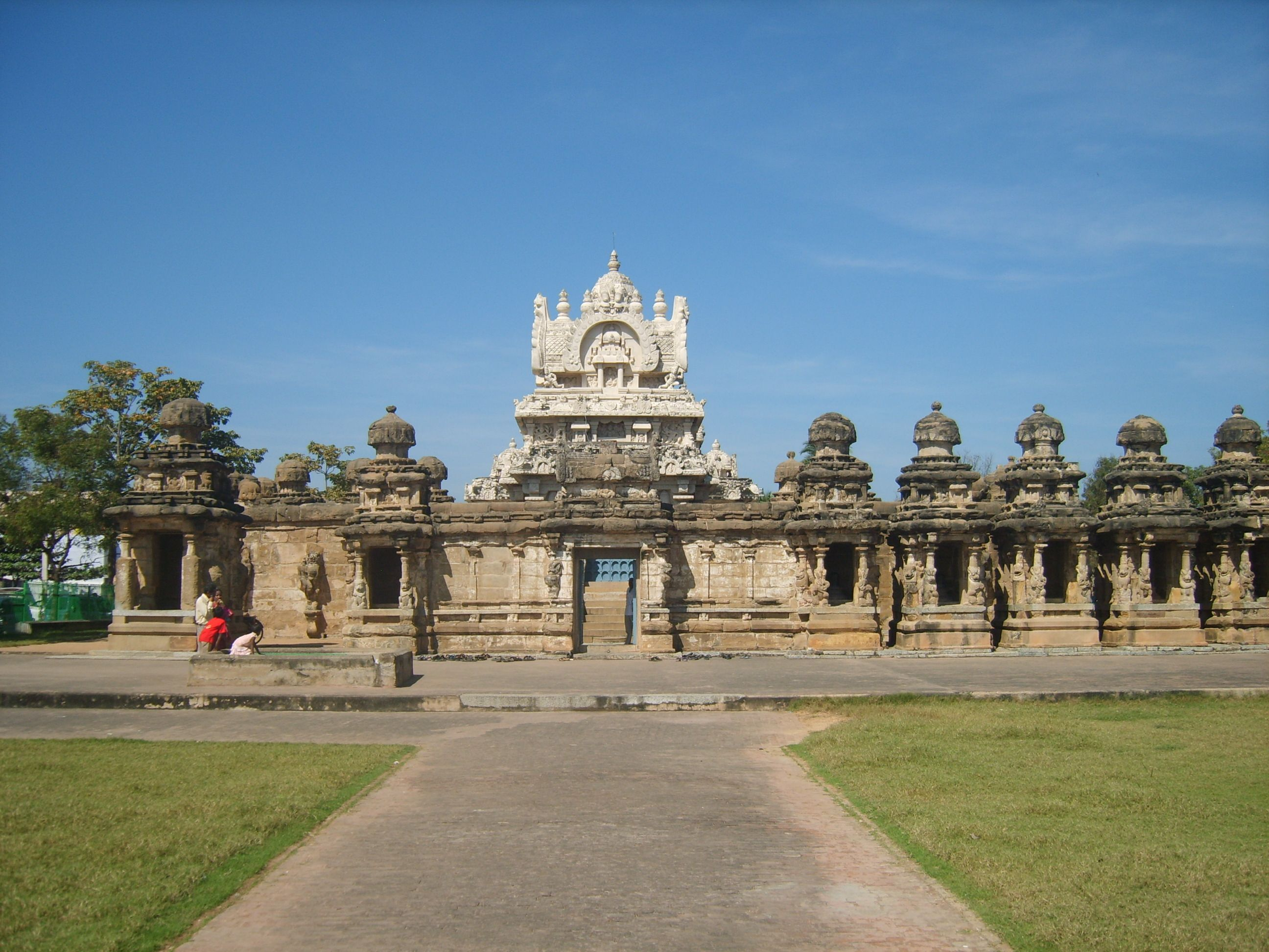 Kailasanathar Temple Entrance - Kanchipuram